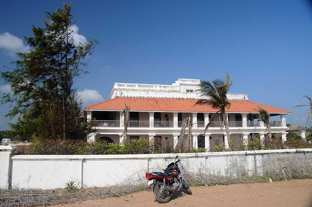 A view of what is today known as ?The Bungalow on the Beach? Resort, run by the Neemrana Hotels. This was indeed a majestic building dating back to the 18th Century, built by the Danish East India Company in what was once a pepper trading post of Tranquebar. The Tamil village of Tharangambadi, which translate to ?The Singing Waves?, was once a Danish colony set up by Adminral Ove Gedde with a sea fort ?Dansborg? and several Lutheran Protestant Churches was once a flourishing sea port and centre of pepper trade. This bungalow, situated at the end of the King?s Street, past the Memorial of the Lutheran Protestant evangelist Bartholomaus Ziegenblog, who has to his credit 24 ?Firsts? including the first Protestant Missionary in India, the First Danish preacher in India, the first to translate The Bible in Tamil, The first to set up a printing press in India, the first to start a paper mill in India, and it goes on? was in a state of dilapidation till the innovative hotel chain purchased it in a state of disrepair and restored it with Tender Loving Care and converted it into a heritage hotel. This area was among the worst hit during the Tsunami